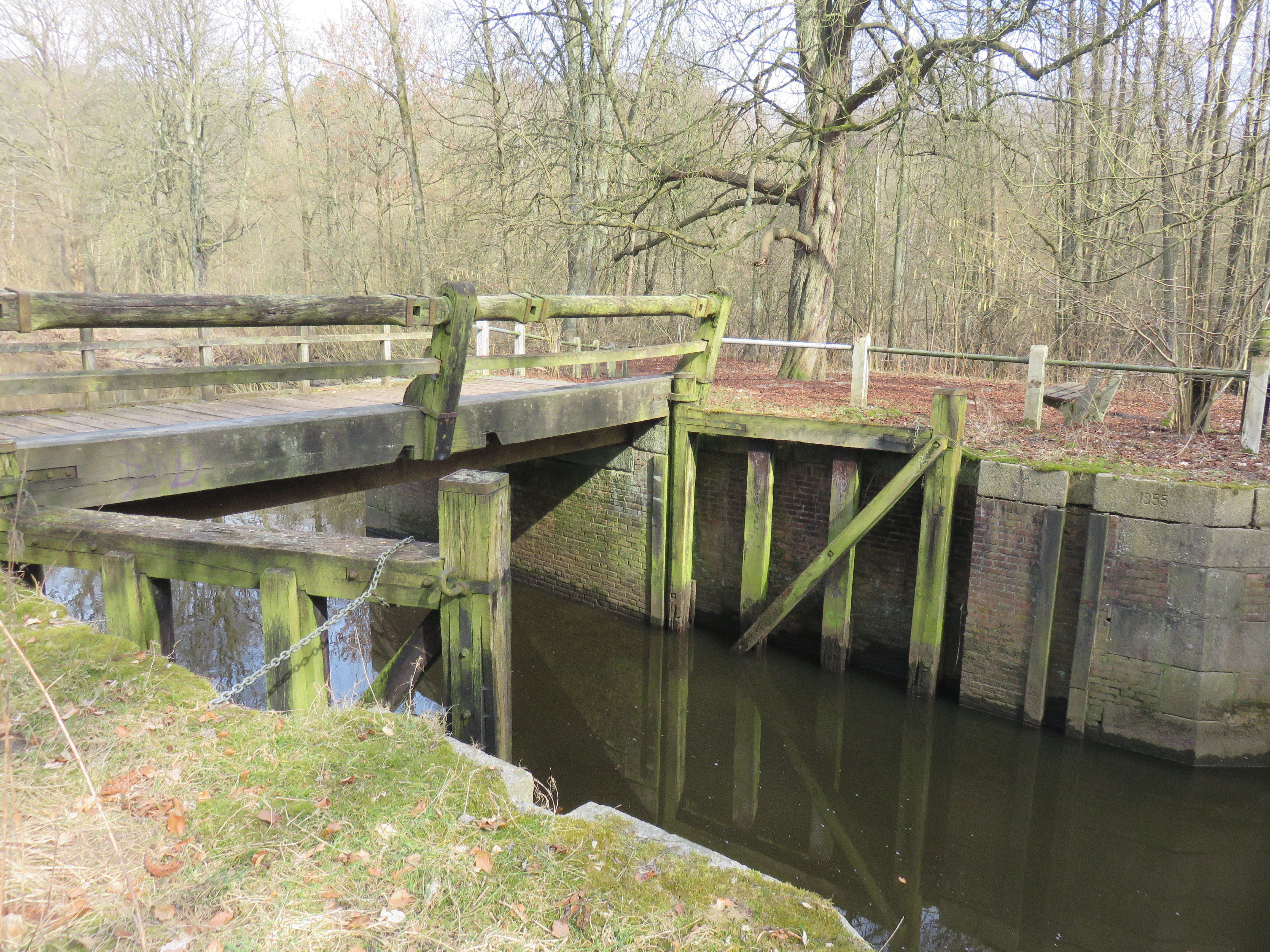 Mellingburger lock, upper weir